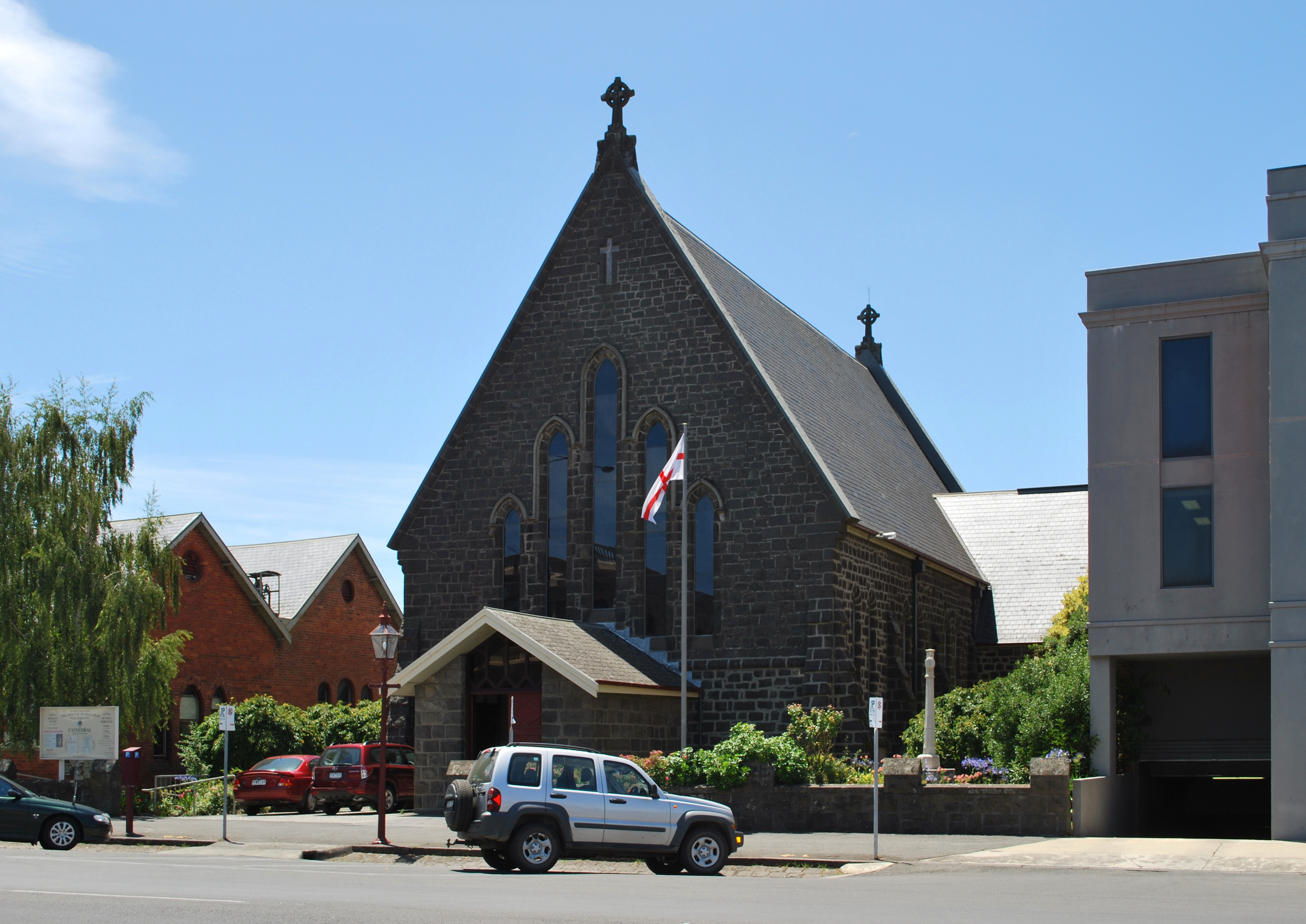 Christ the King Anglican cathedral in Ballarat, Australia